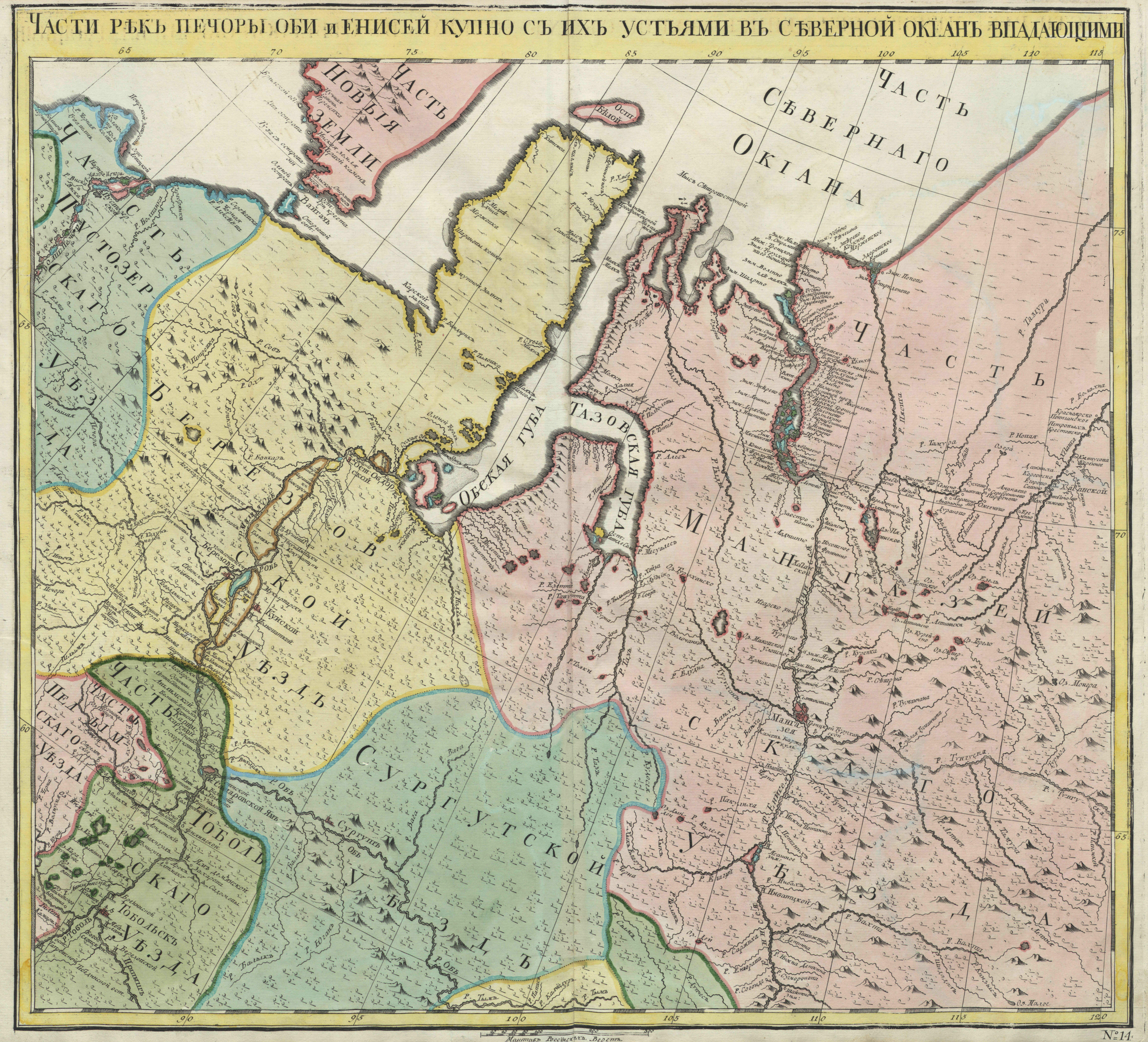 First official geographic atlas of the Russian Empire (1745). Parts of Pechora, Ob and Yenisey rivers with mouths flowing to the Arctic Ocean.